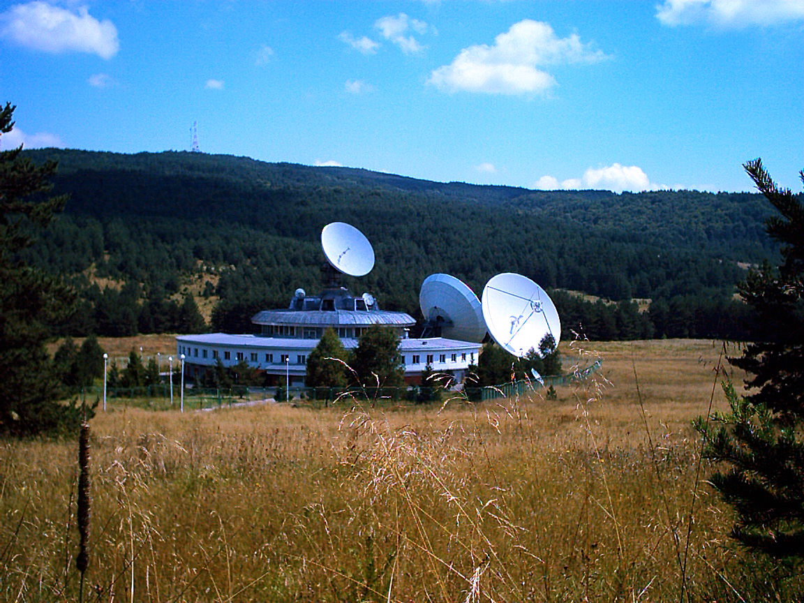 Vivacom telecommunication station in Plana